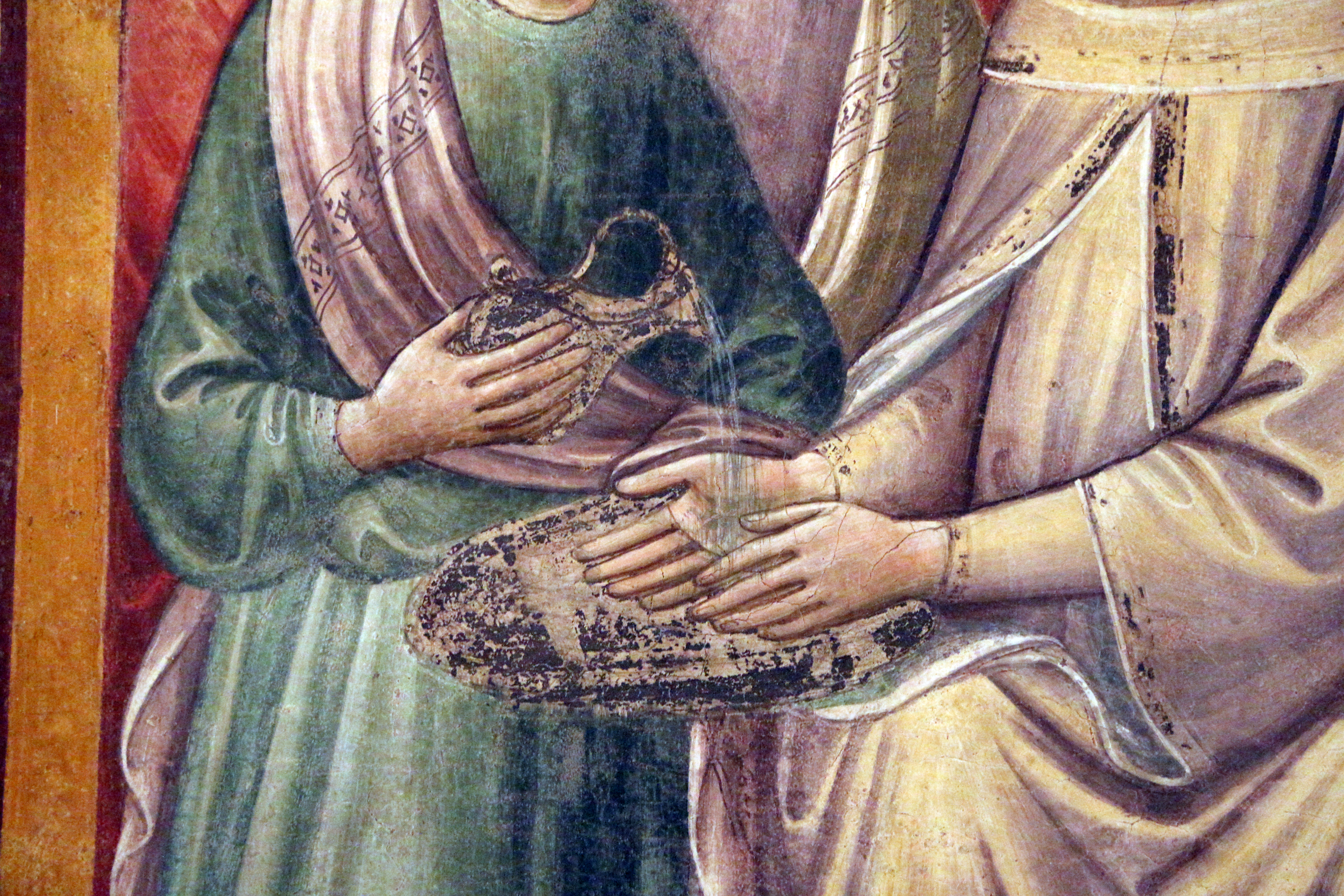 Officina di Santa Maria Novella - Chapel